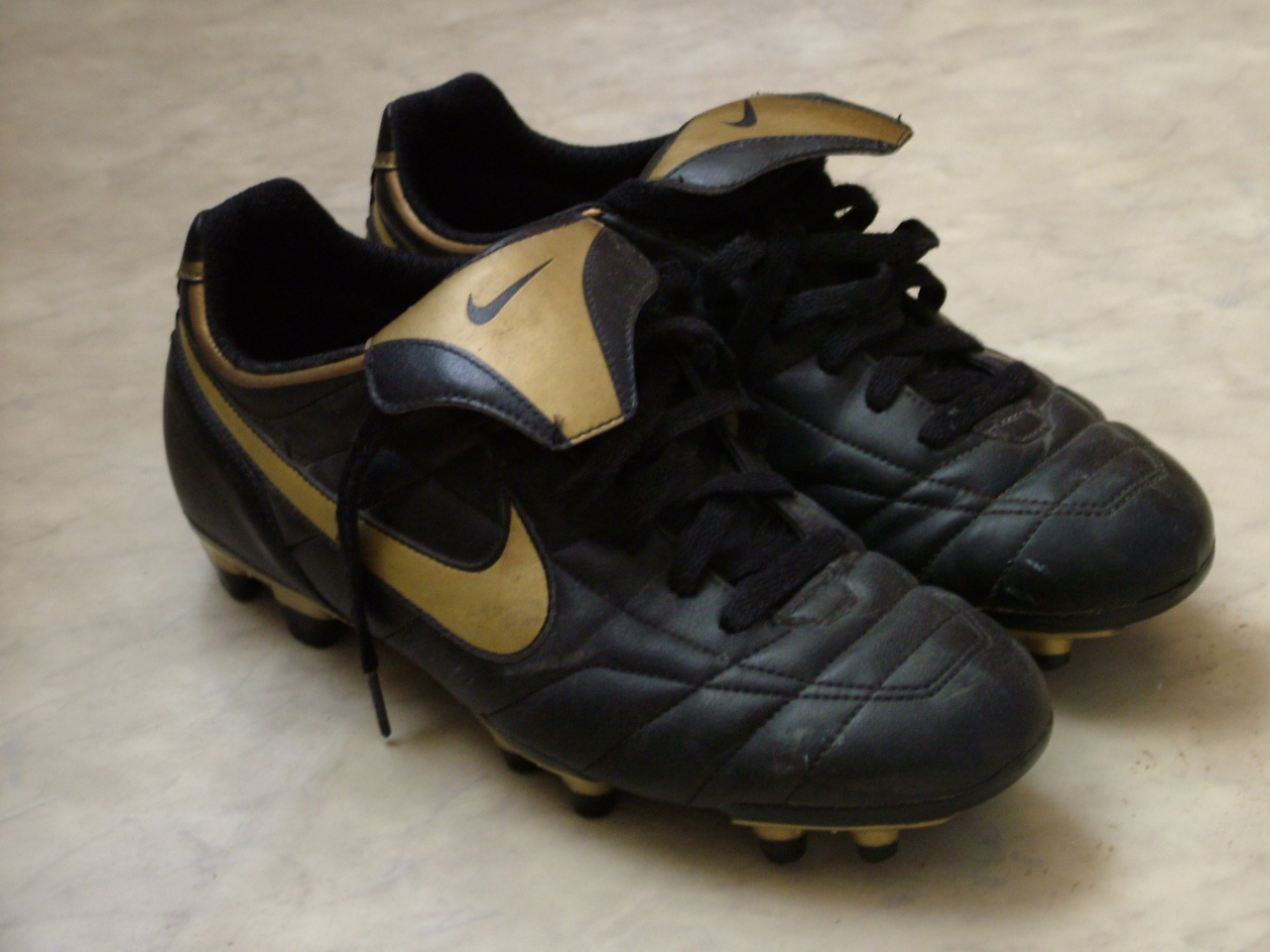 Niket Tiempo football boot